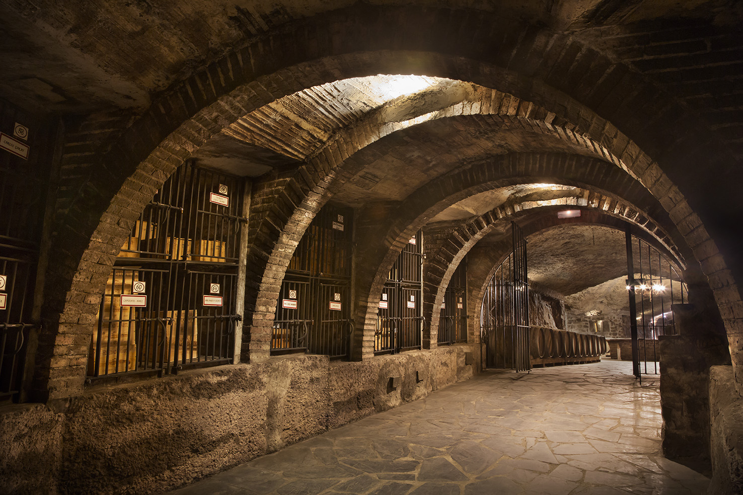 Caves under Eguren Ugarte winery in Laguardia, Álava, Spain